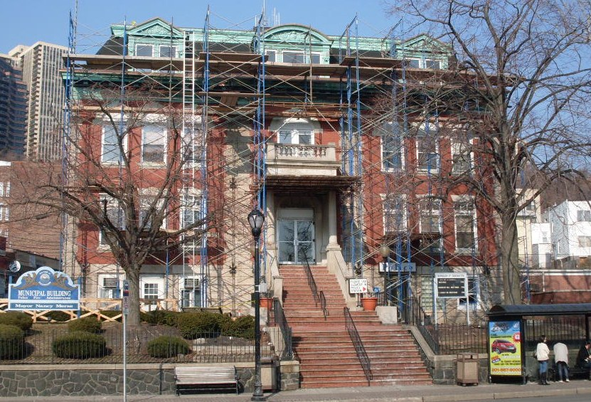 Edgewater, NJ Borough Hall municipal bld with scaffolding for renovation, 2009